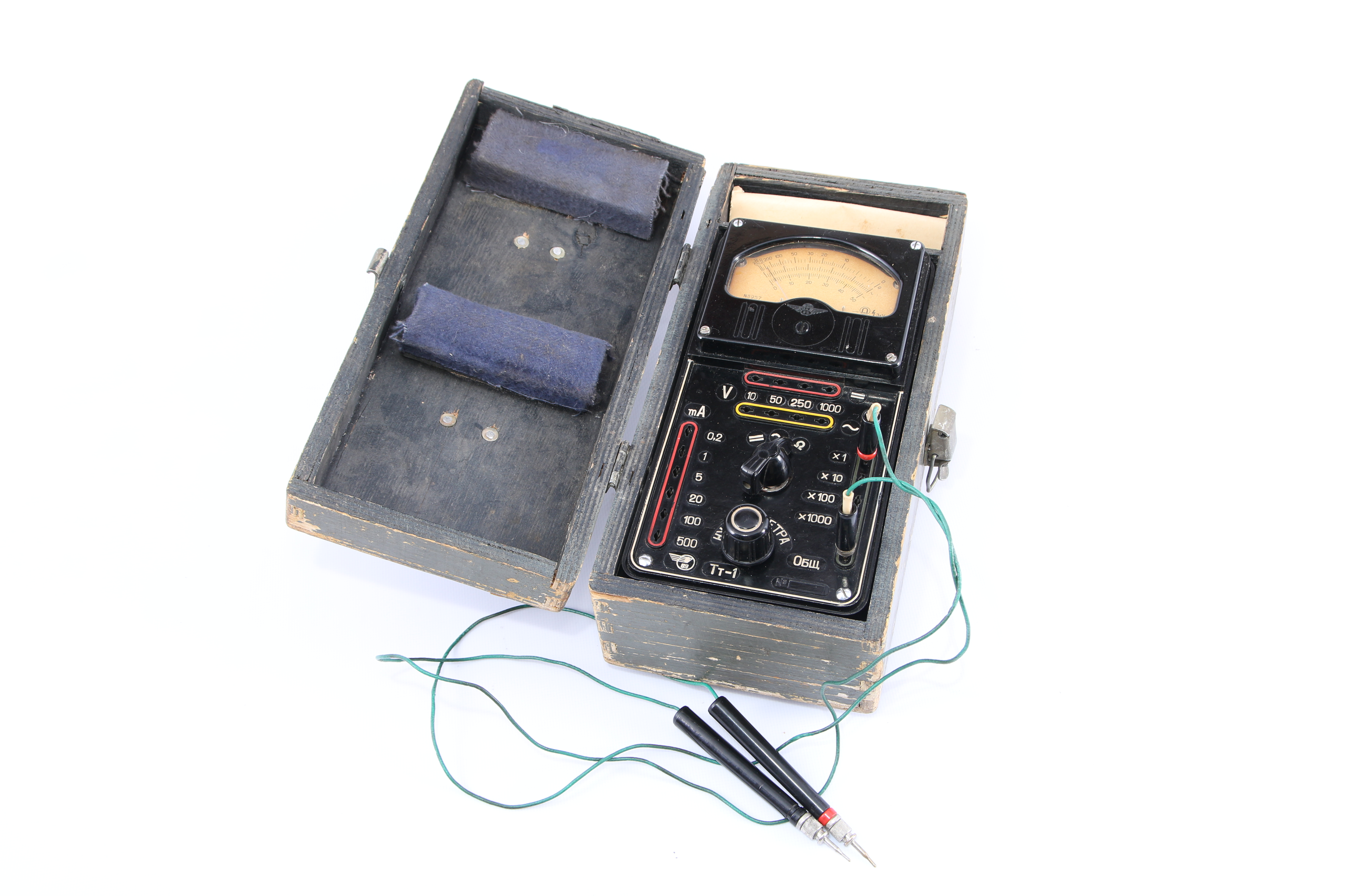 Soviet multimeter TT-1. Made in 1955. Used for measure AC/DC voltage, DC current and resistance.